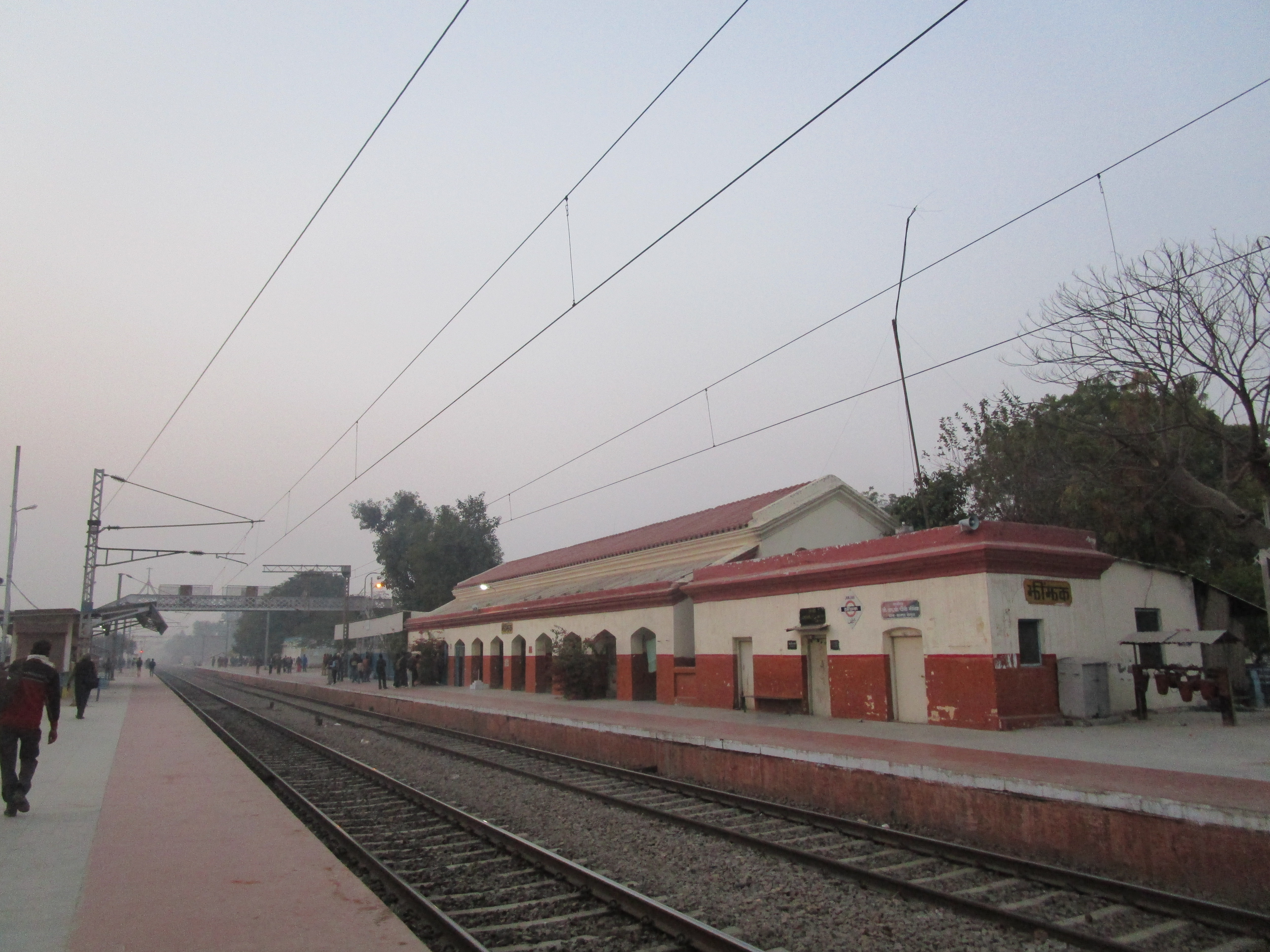 Jhinjhak Raiway Station at Kanpur Dehat District